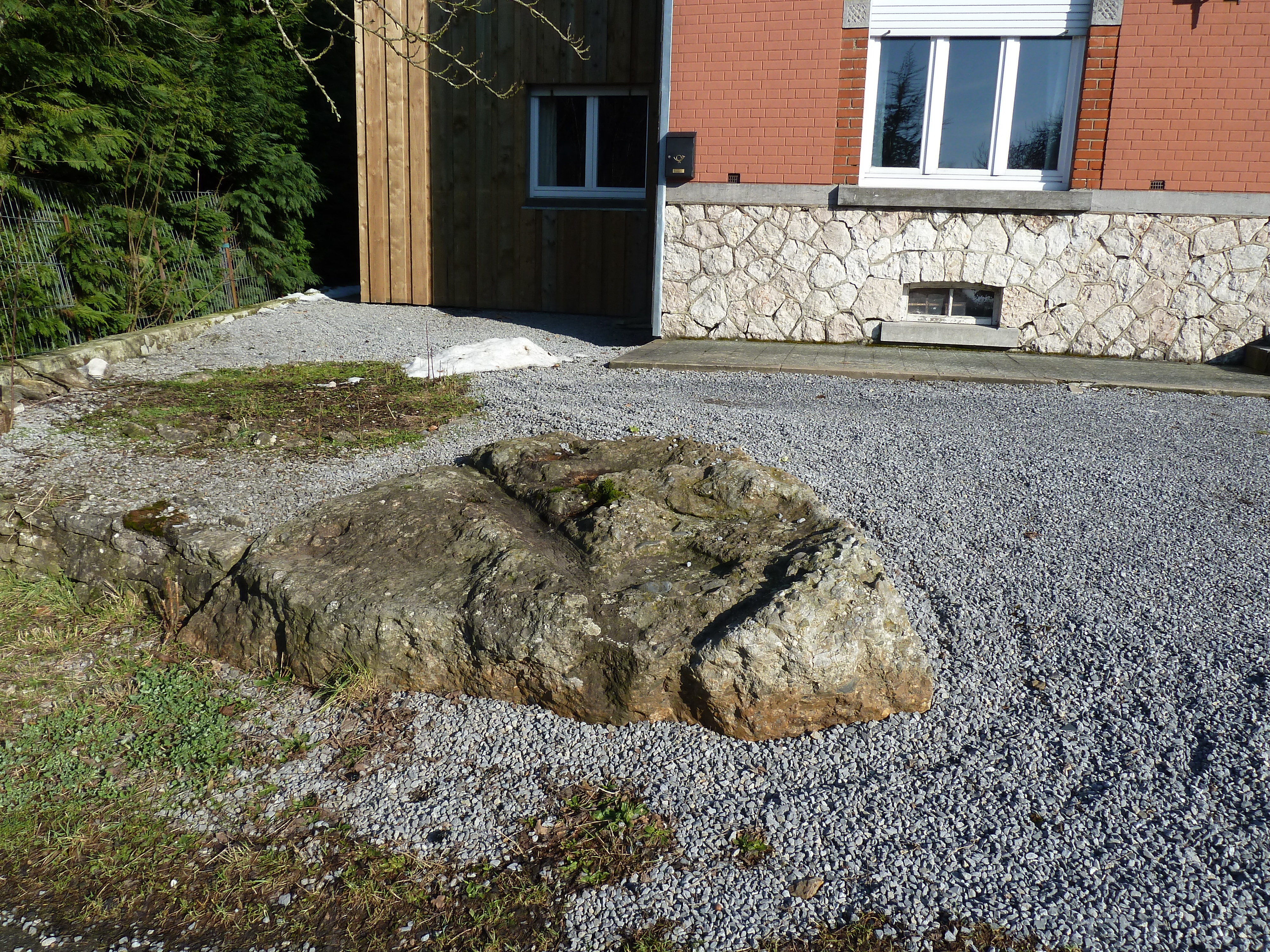 Le Pas-Bayard, Wéris, Belgium